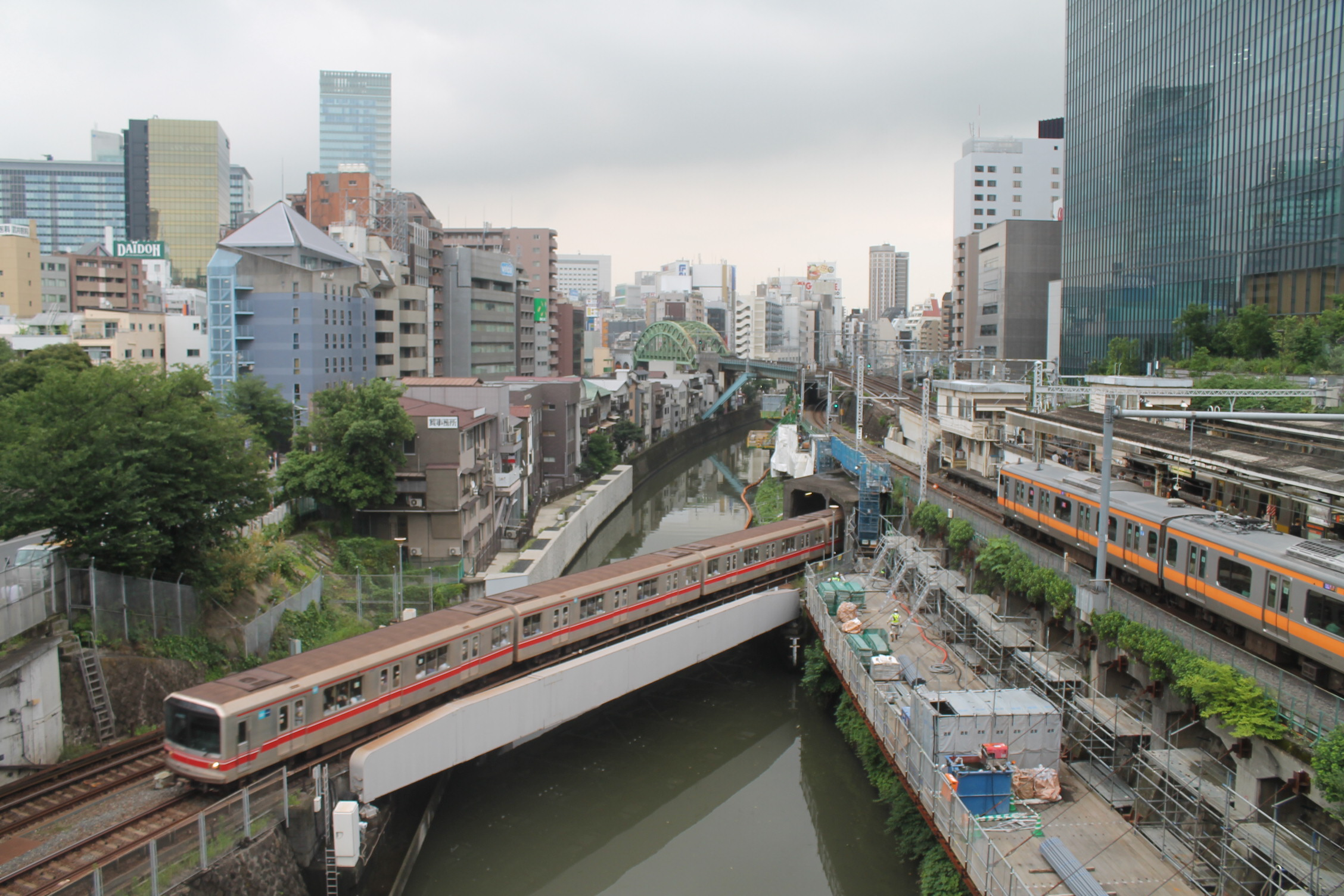 Tokyo Metro crossing under Chuo-Sobu Line.